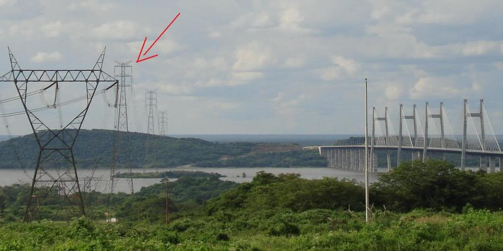 An arrow points the three pylons that form the Orinoco River Crossing, on the Orinoco river. To the right, The Second Orinoco Crossing or Orinoquia Bridge. Una flecha señala las torres de alta tension que forman el cruce del rio Orinoco. A la derecha, el segundo cruce del rio Orinoco o Puente Orinoquia.